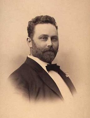 Charles Theodor Martin Kjerulf (1858-1919), Danish composer, translator, critic, and writer